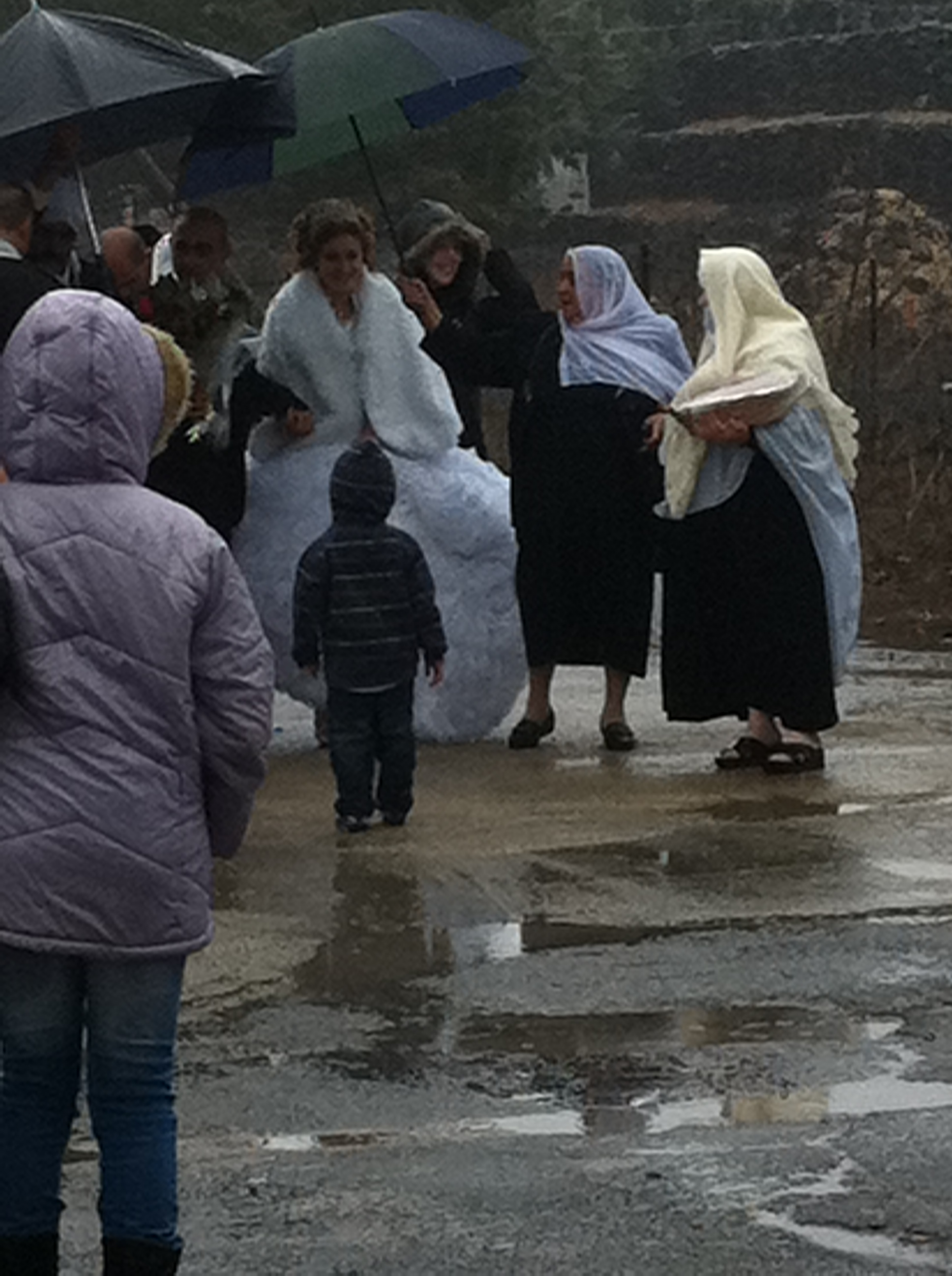 November 3, 2011 Today, two Syrian brides entered Israel from Syria via the Quneitra Crossing, along the Israeli-Syrian border, and reunited with their families who live in Majdal Shams. Throughout the year, Israeli Druze students studying in Syria use their semester breaks to visit their families living in Israel. The crossing is coordinated by officials from the Northern Command along with UNDOF and the Ministry of Defense. The Israel Defense Forces Facebook page The Israel Defense Forces blog Follow us on Twitter